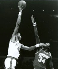 New York Knicks' center basketball player Jawann Oldham (left) taking a hook shot against opposing player Akeem (Hakeem) Olajuwon (right) of the Houston Rockets during a November 25, 1986 home game at Madison Square Garden.